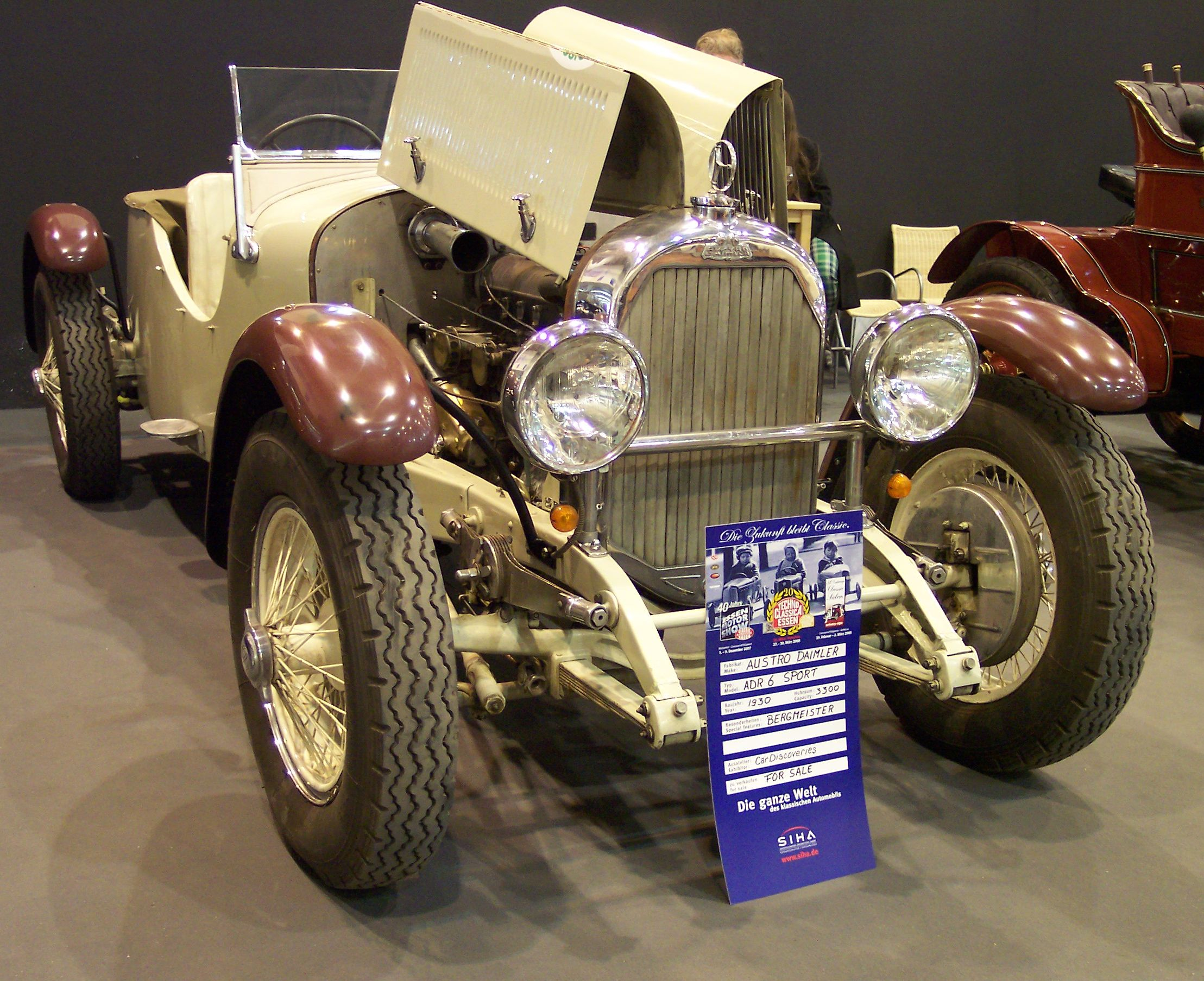 Techno-Classica 2007, Austro Daimler ADR 6 Sport}, 3300 cc